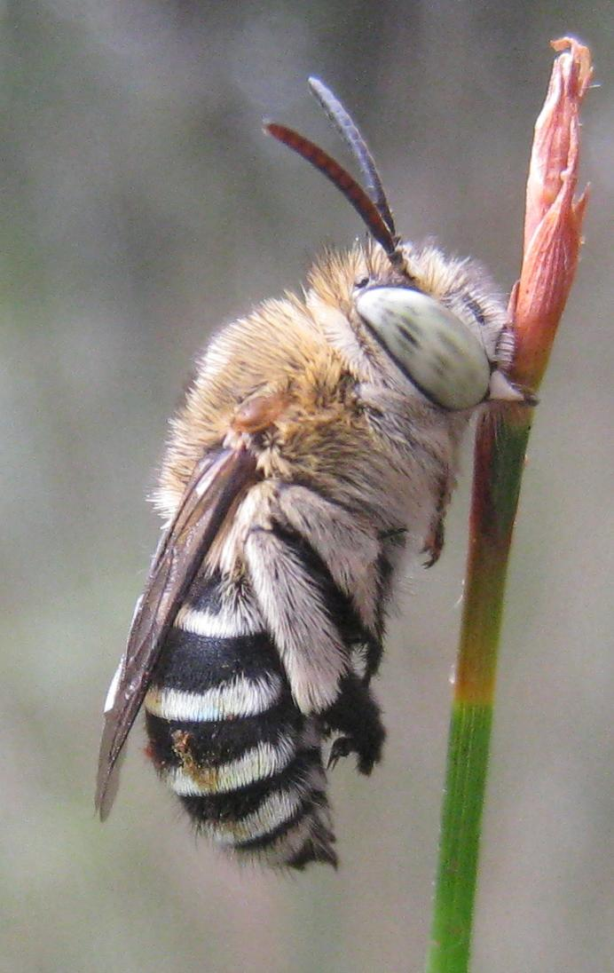 Look mum - no hands. A Common Blue-Banded Bee (Amegilla cingulata) pegged on, looking like it is easy. Paruna Reserve, Como NSW Australia, January 2010.